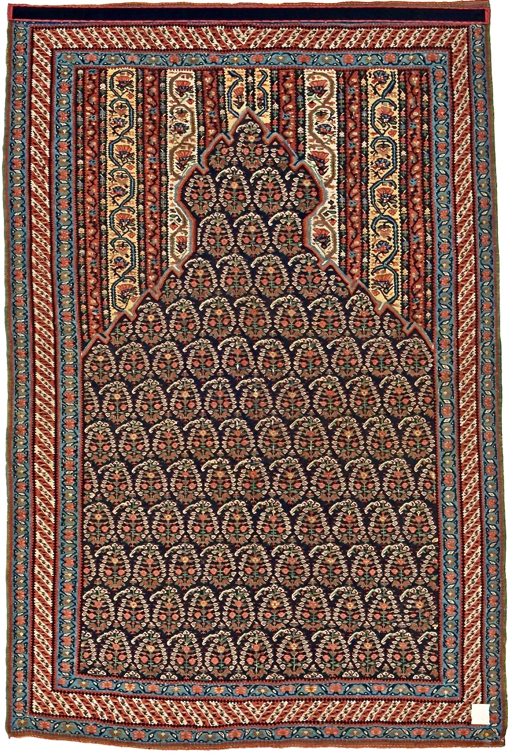 Senneh prayer kilim 19th C. Northwest Persia, 19th century 182 x 121 cm (6’ x 4’) Condition: very good according to age, both upper edges restored, scattered small old repairs Warp: wool, weft: wool This lovely, colourful example of the rare prayer kilims presents three different textile designs. Cashmere textiles, either from India or from Persia, were highly prized items within Qajar society. Therefore, it is no surprise to find their designs in equally fine luxury city kilims from Senne and its surrounding areas. The main field in the head-and-shoulder mihrab shows botehs on a blue ground, such as we can find in depictions of costumes in Qajar paintings from the end of the 18th century onwards. In most Sehna kilims, as in our piece, the botehs turn to one side, but sometimes they march in different directions. (See HALI 115, p. 111.) In the spandrel above we see strips related to Persian kani weaving, which were used not only for clothing but also in the Naksi embroidered trouser ends of the Zoroastrian community. The third textile design is found in the red-and-white border that provides an almost exact representation of Persian cashmere weave, with small flowers in narrow strips. A similar prayer kilim but with the reverse arrangement of the field and spandrel designs was sold in Wiesbaden as part of the Vok collection (R&B, Vok collection Selection 3, p. 97). That example had the same main border, while the minor borders were once again flower meanders but this time on a white ground. It differed in the shape of the mihrab as it belonged to the smaller subgroup in which the head-and-shoulder mihrab is replaced by a simple pyramid shape. The Kurdish weavers of Senne and its surrounding areas managed to produce the finest and most elaborate weavings among Persian kilims. Their refined city taste counterpoints wonderfully the nomad weavings of the southern Caucasus. Published: Rippon Boswell, 13 November 1993, Lot 142. Estimate: € 8000 - 14000